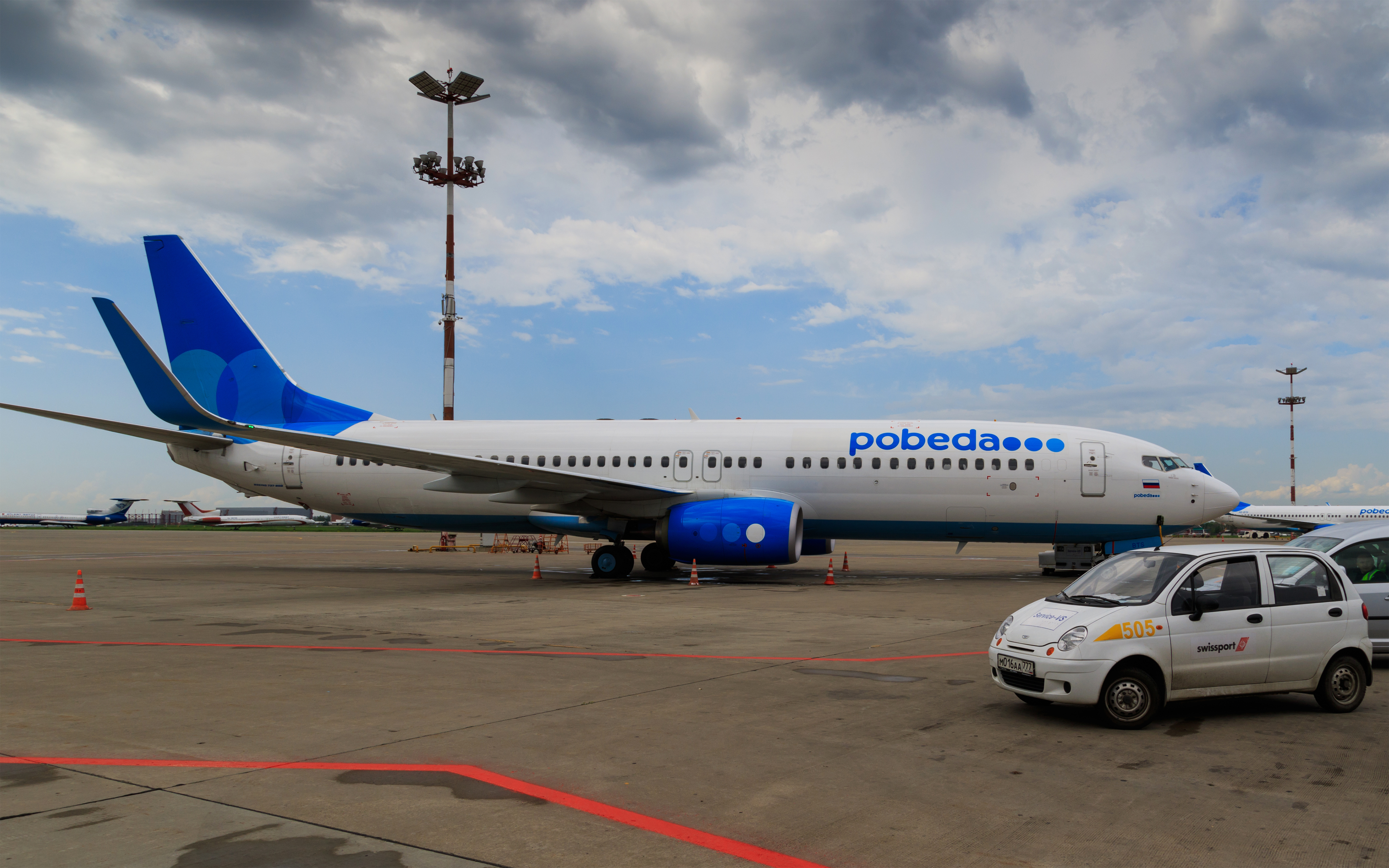 Moscow-Vnukovo Airport, VQ-BTS Boeing aircraft of Pobeda Airlines